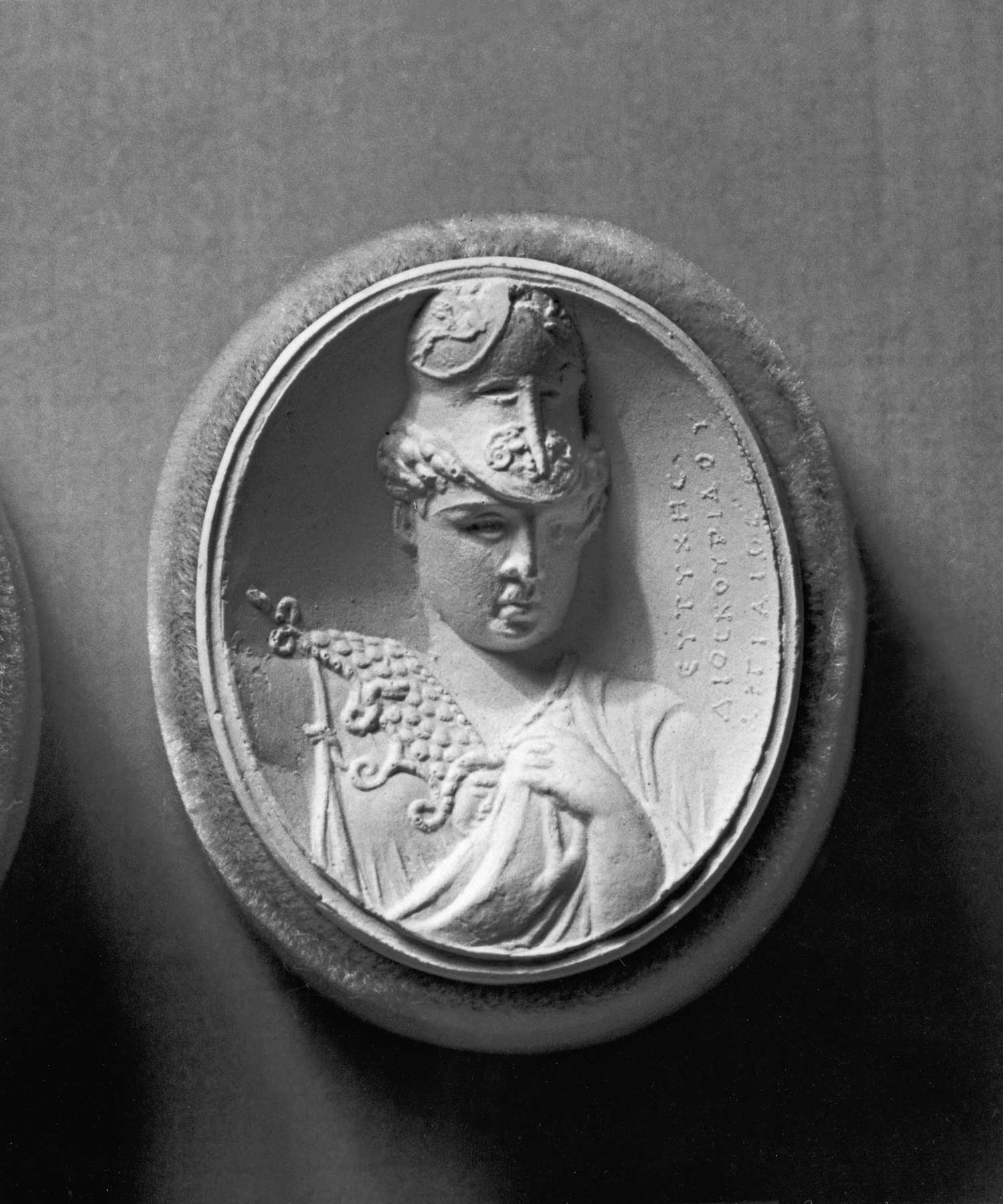 This is a copy of an ancient Roman rock crystal intaglio now in the Berlin Museum. Both are signed in Greek: "Eutyches, son of Dioskourides of Aigeai made it."